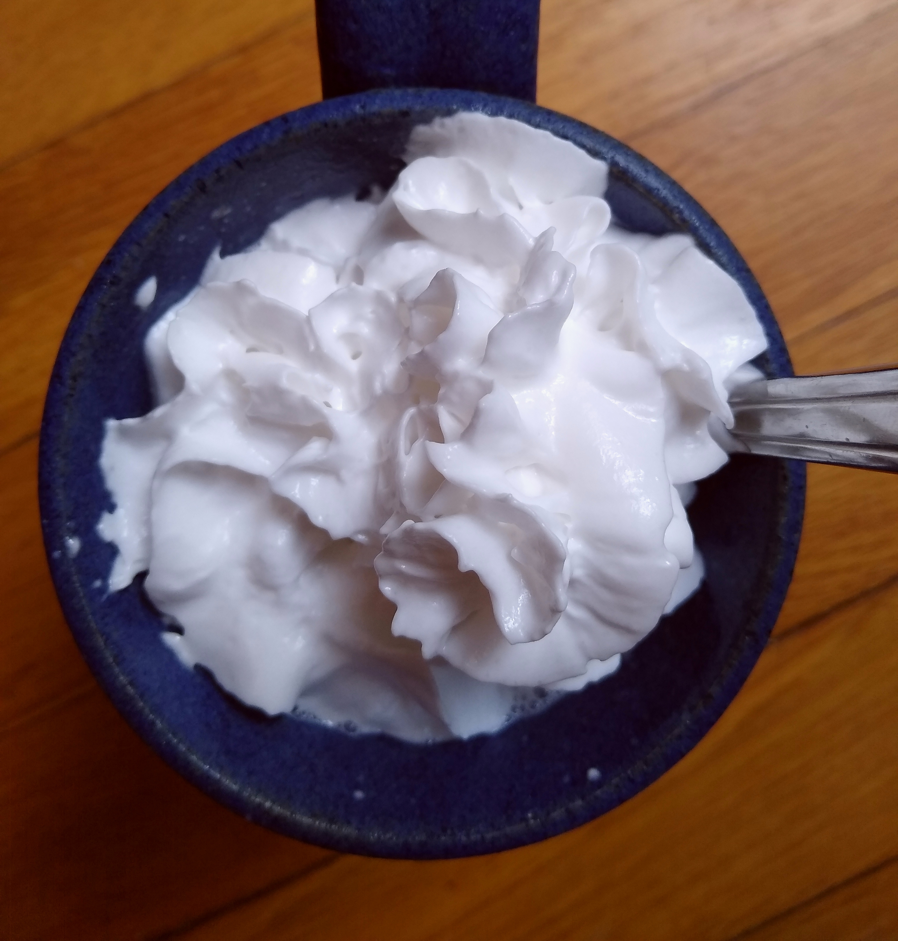 Vegan, lactose-free "coconut whipped topping", a vegan whipped cream alternative made by Sweet Rose, served on top of a vegan milkshake.